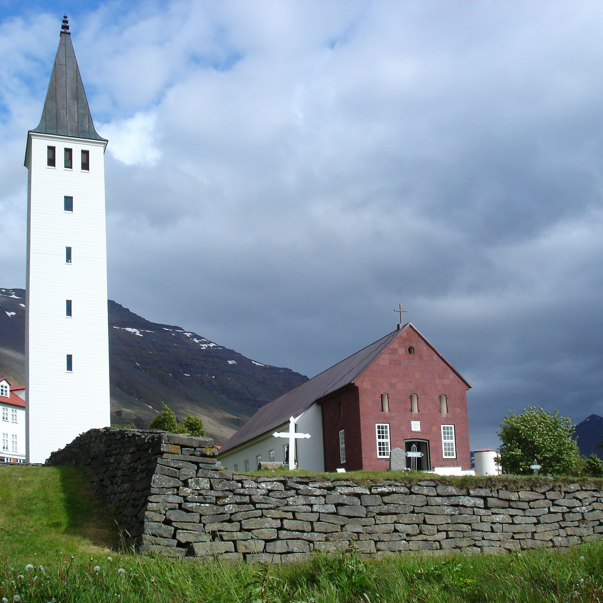 The church in Hólar í Hjaltadal in Skagafjörður, Iceland.